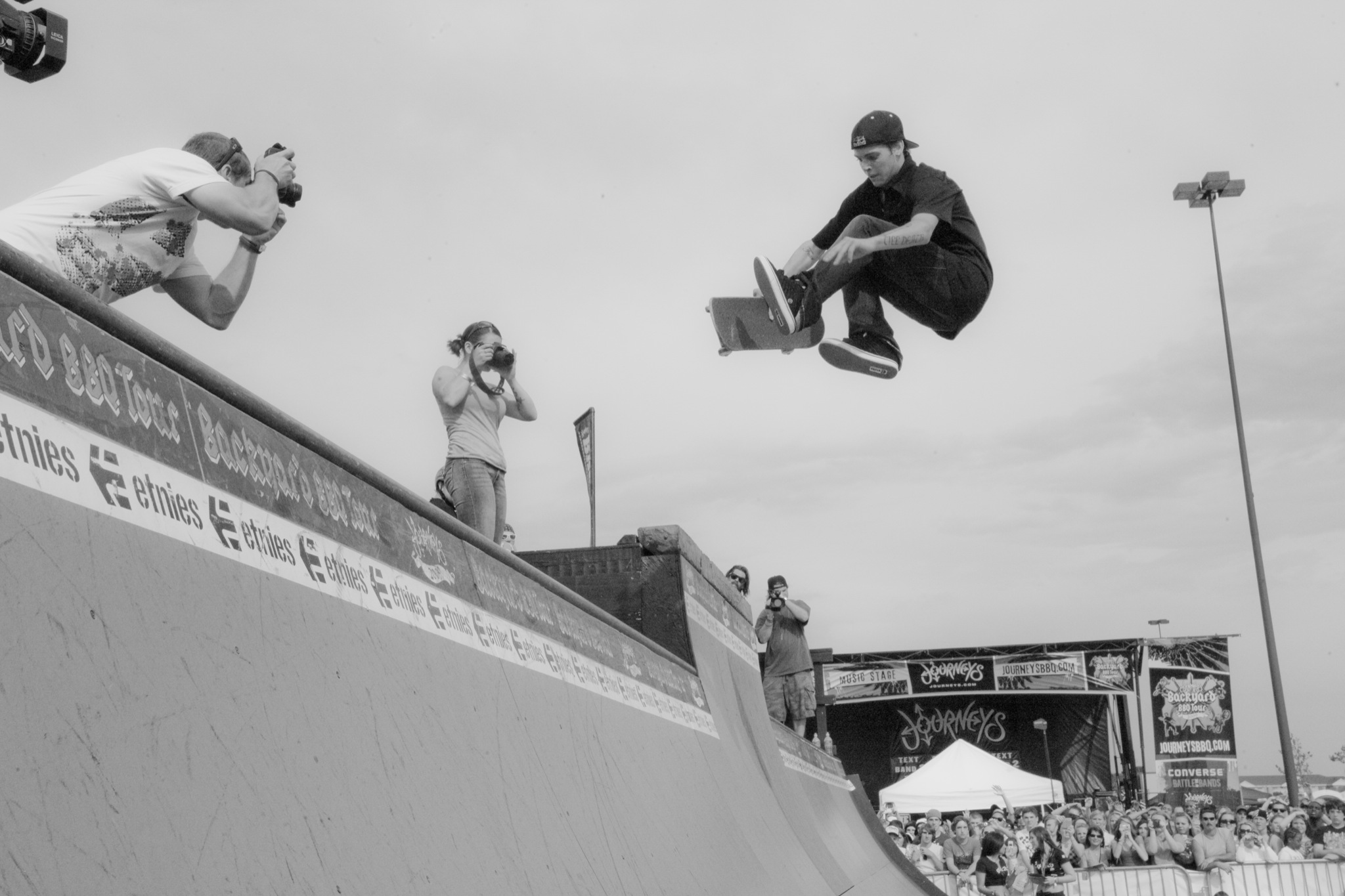 American professional skateboarder Ryan Sheckler